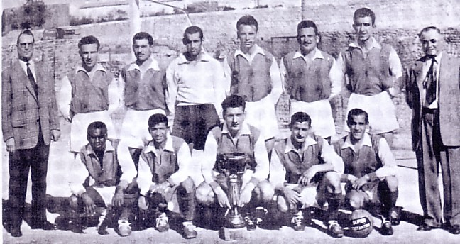 Picture of team "USSC Témouchent", winner in 1954 to the "Coupe d'Afrique du Nord de football (with trophy).